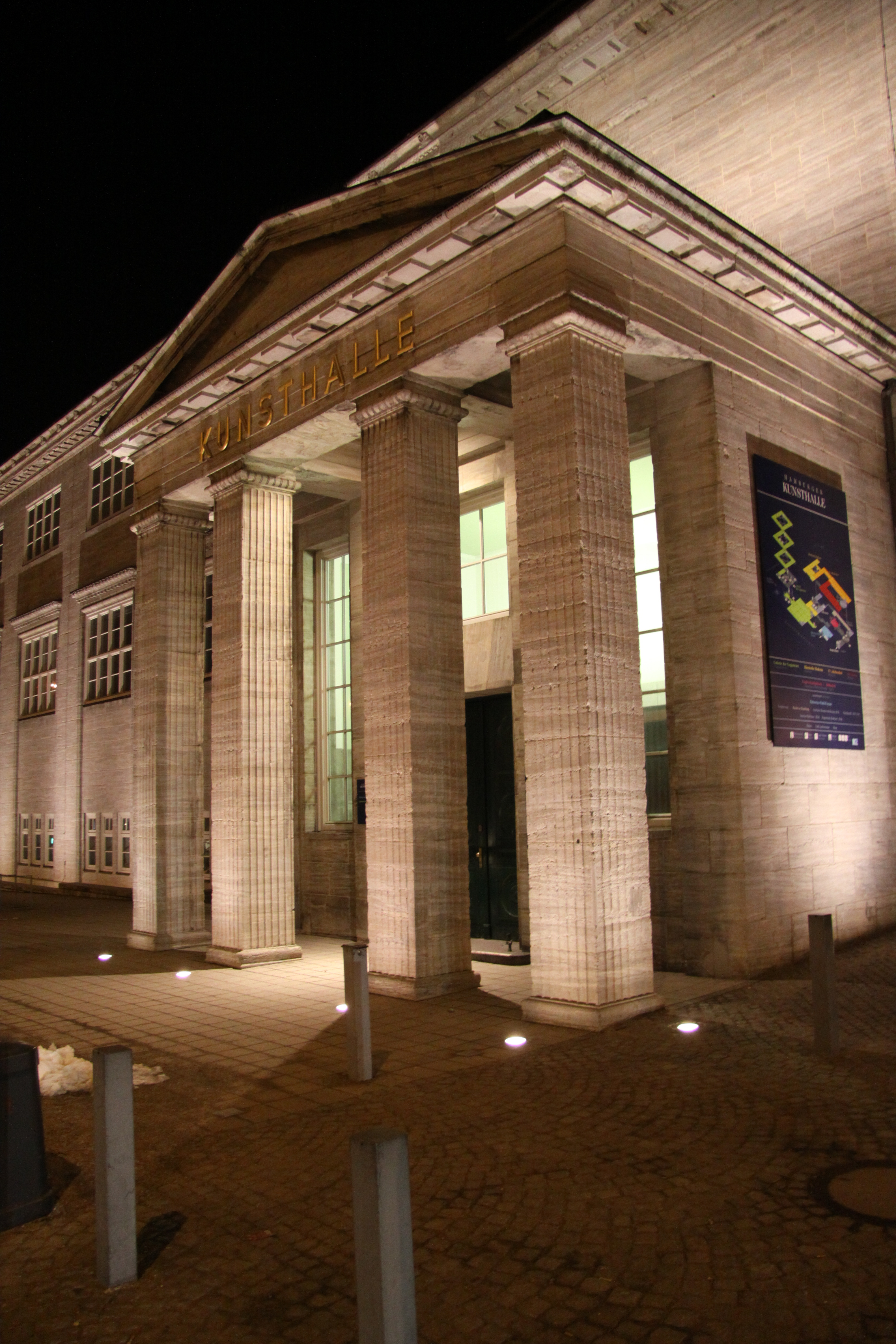 Portal of the Hamburger Kunsthalle at night. This is the photograph of an architectural monument. It is part of the list of cultural monuments of Hamburg, no. 613